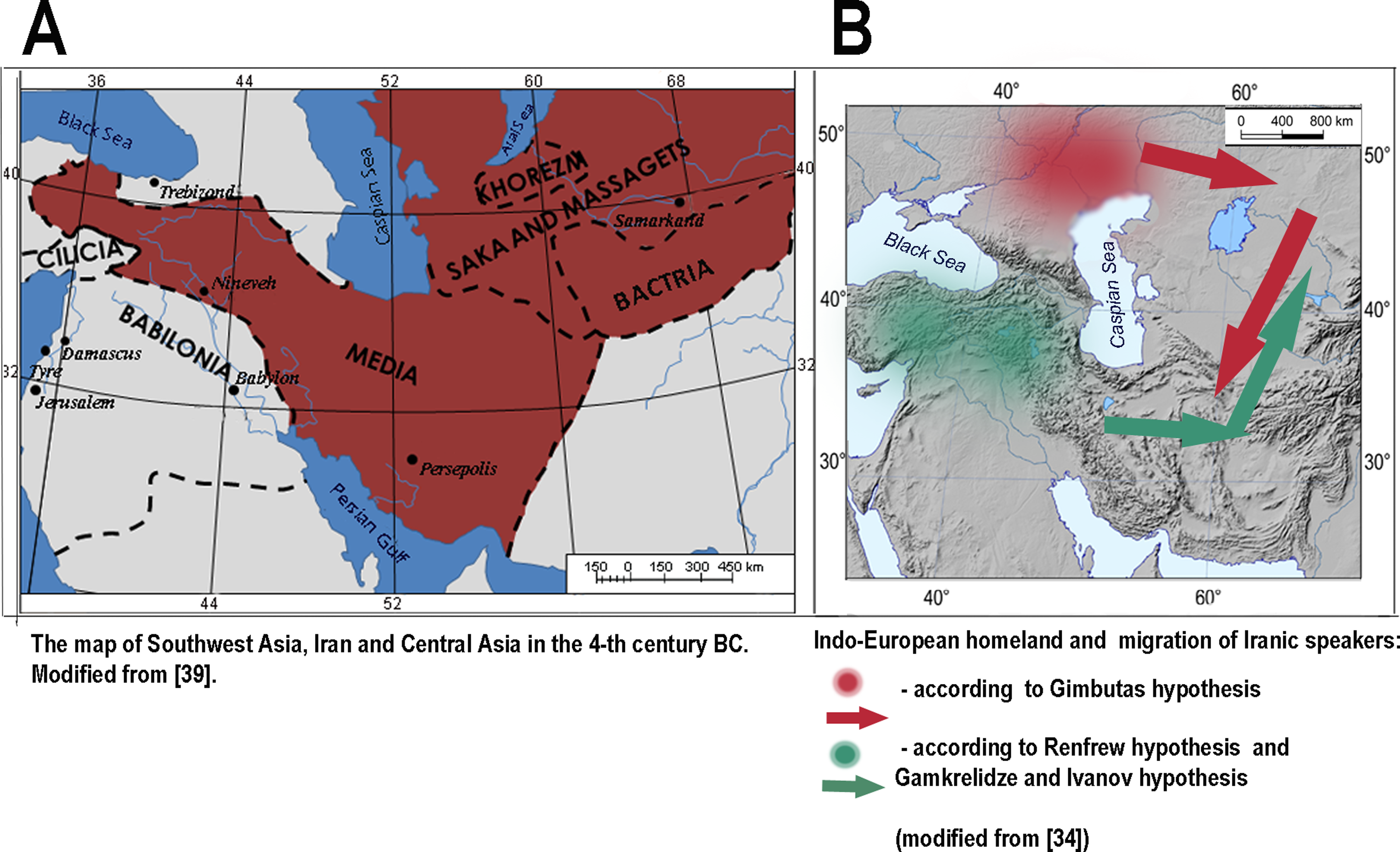 Ancient migrations of Iranic-speaking populations. A) Area populated by Iranic speakers in the middle of the first millennium BC. States whose languages belonged to the Iranic and Armenian linguistic groups are shown in red (modified from [39]). B) Homeland and migration of Iranic speakers according to the major competing theories (modified from [34]). [39]. Oransky I. Map 1. Southwest Asia, Iran and Central Asia in the VI. BC. Introduction to Iranian philology. Moscow: Publishing House of Oriental Literature; 1960. p. 62–3 (In Russian) [34]. Mallory J. In search of the Indo-Europeans: language, archaeology and myth.illustrations. London: Thames & Hudson; 1989. 288 p.